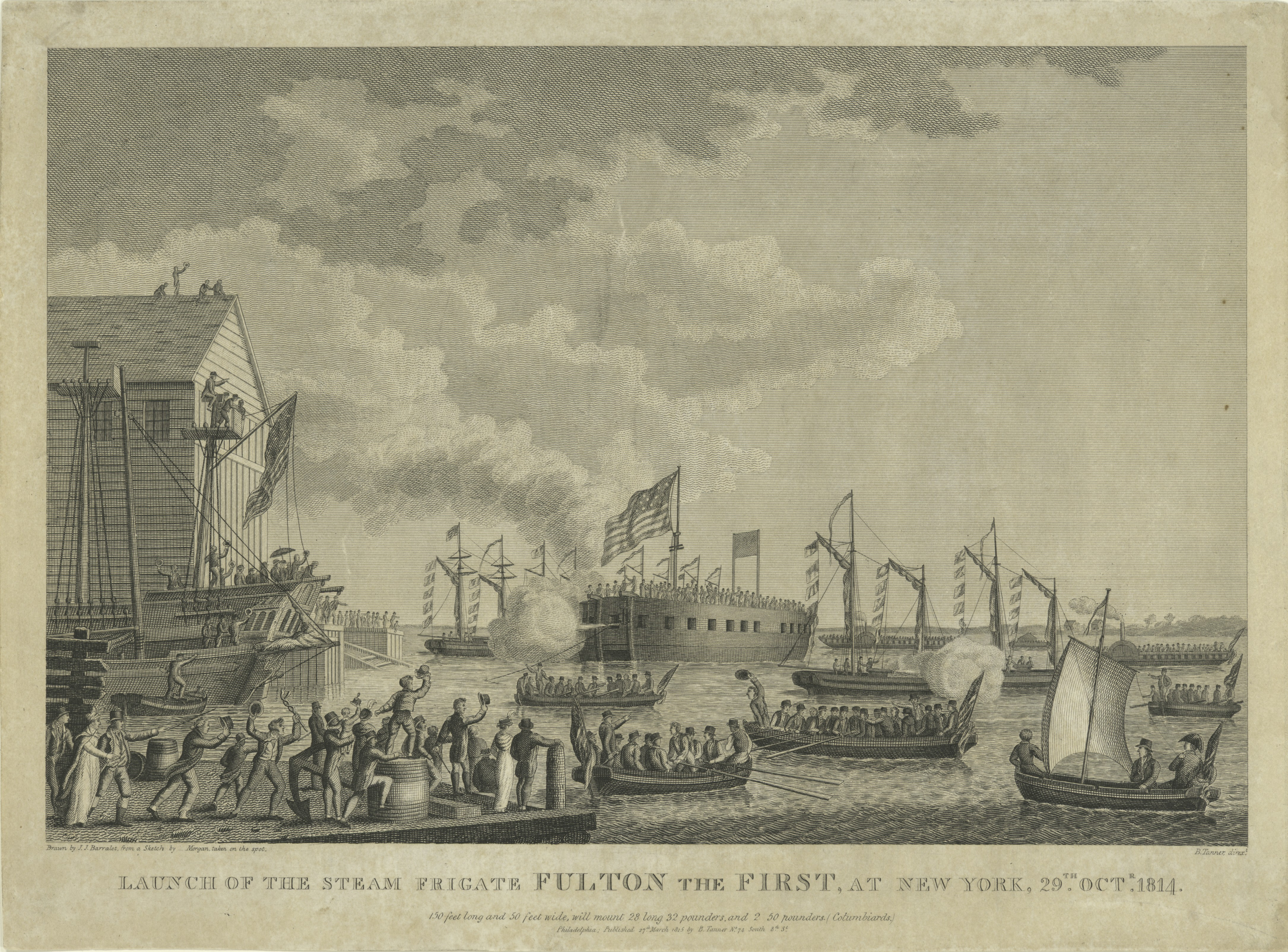 Launch of USS "Fulton the First" in New York Harbor, 1814 Removed caption read: Photo # NH 53969 Launching of the steam battery Fulton, at New York, 29 October 1814